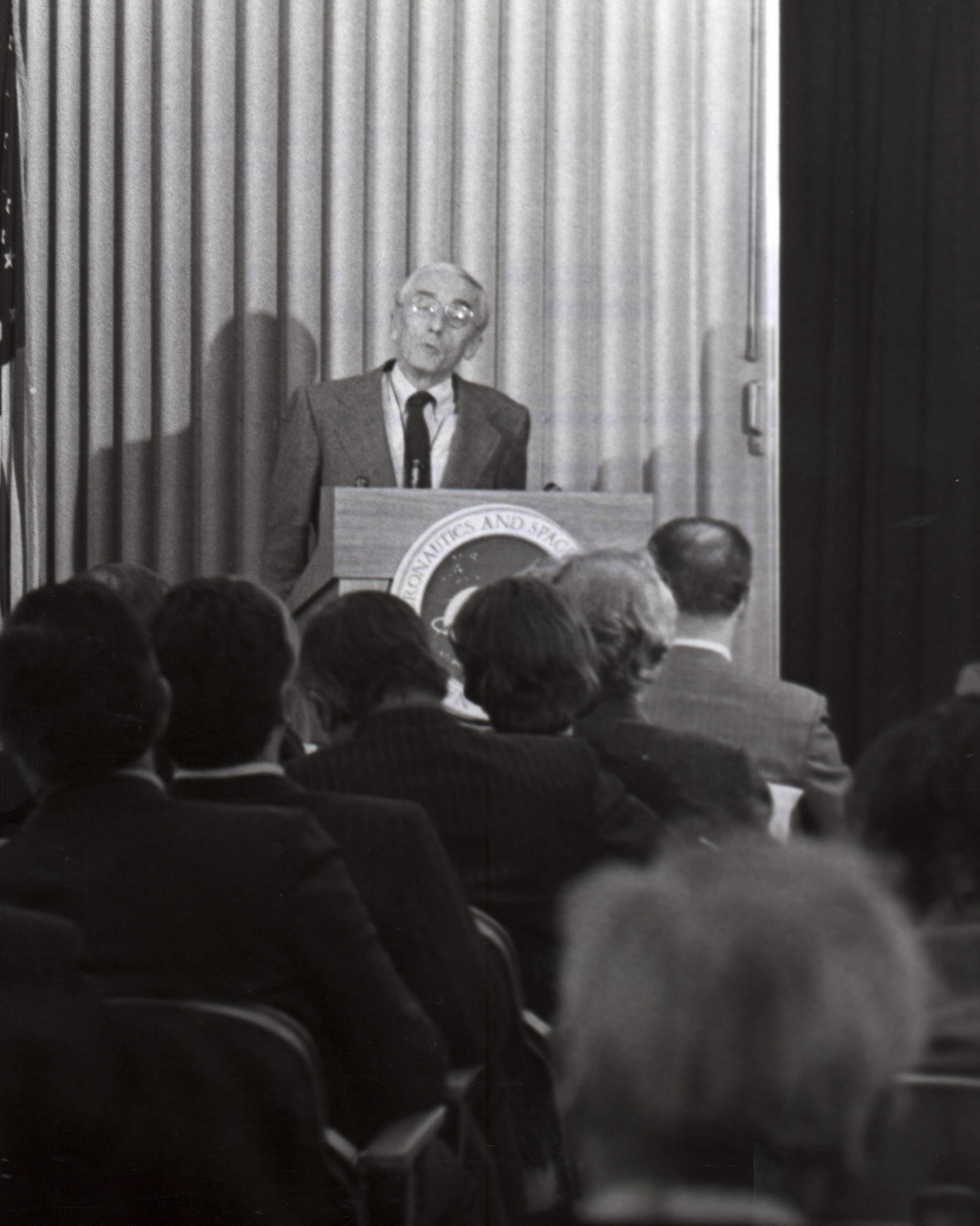 Jacques Cousteau, the French undersea researcher, is shown addressing members of the press on his experiences during an Antarctic expedition with the oceanographic ship, Calypso. The Calypso used satellite communication and weather equipment provided by NASA to test the accuracy of satellite observations in relation to the ship's surface observations. Calypso used satellite observation information to navigate into safe waters after getting hit by an iceberg. Cousteau was born in Saint-Andre-de-Cubzac, France on June 11, 1910. He died on June 25, 1997, after contributing various books and hundreds of documents on the chartless realms that make up the planet's oceans. In 1956, with the help of Calypso and her crew, Cousteau received an Academy award for his undersea documentary, The Silent World, and cemented his position as one of the world's most famous marine biologists.